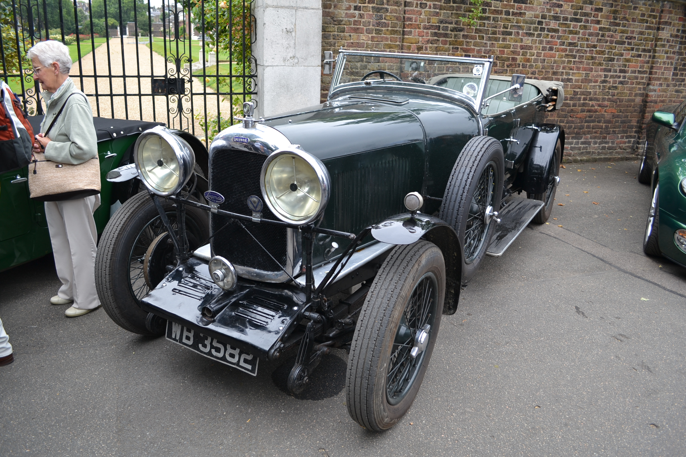 1930 Lagonda tourer(DVLA) first registered 24 March 1930, 2687ccChelsea Auto Legends 2012